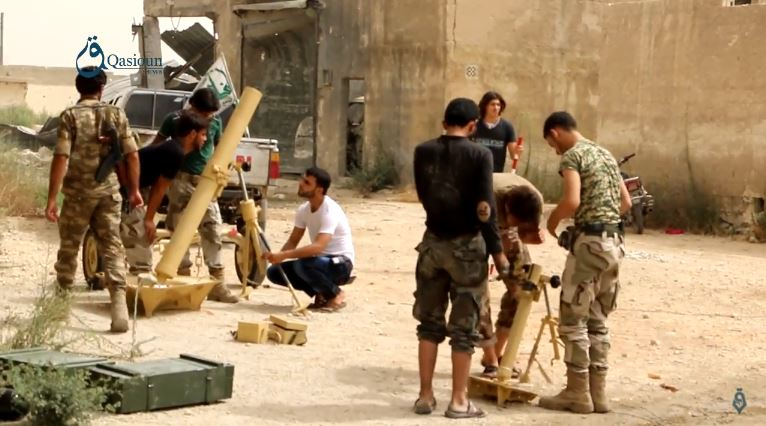 Qasioun news; Aleppo: Opposition forces target regime forces with mortars in Karam Tarab 13-9-2015